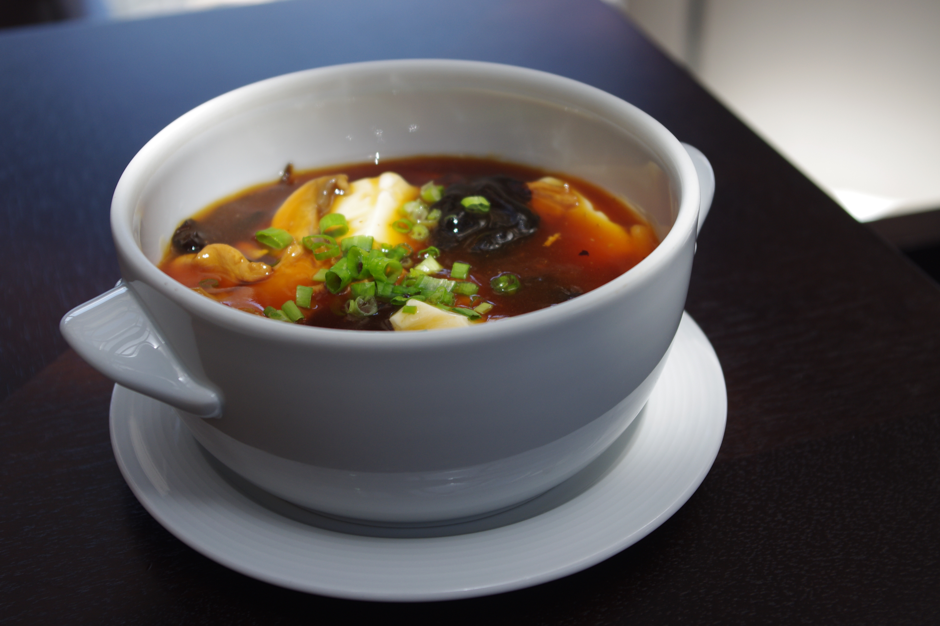 Breakfast in China Grill, Park Hyatt Beijing